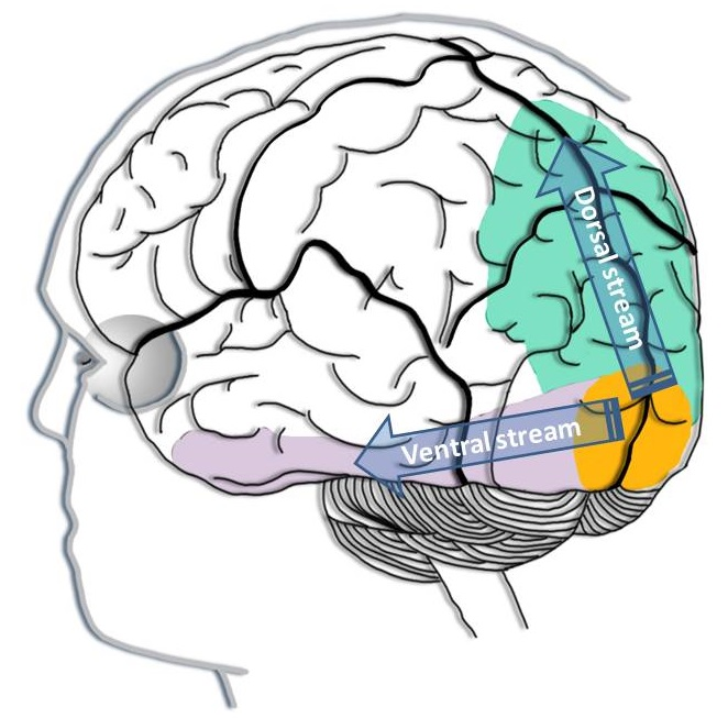 Visual information processing in the cortex. From the primary visual cortex (V1, shown in yellow), the visual information is passed in two streams. The neurons along the ventral stream also known as the ventral visual cortex (shown in purple) are primarily concerned with what the object is. The ventral visual stream runs into the inferior temporal lobe. The neurons along the dorsal stream also known the dorsal visual cortex (shown in green) are primarily concerned with where the object is. The dorsal visual stream runs into the parietal lobe.